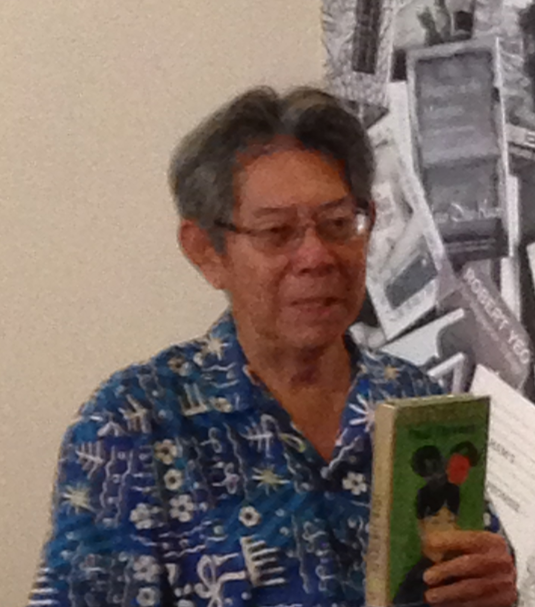 Singaporean author Robert Yeo giving a talk at Select Books in Singapore.